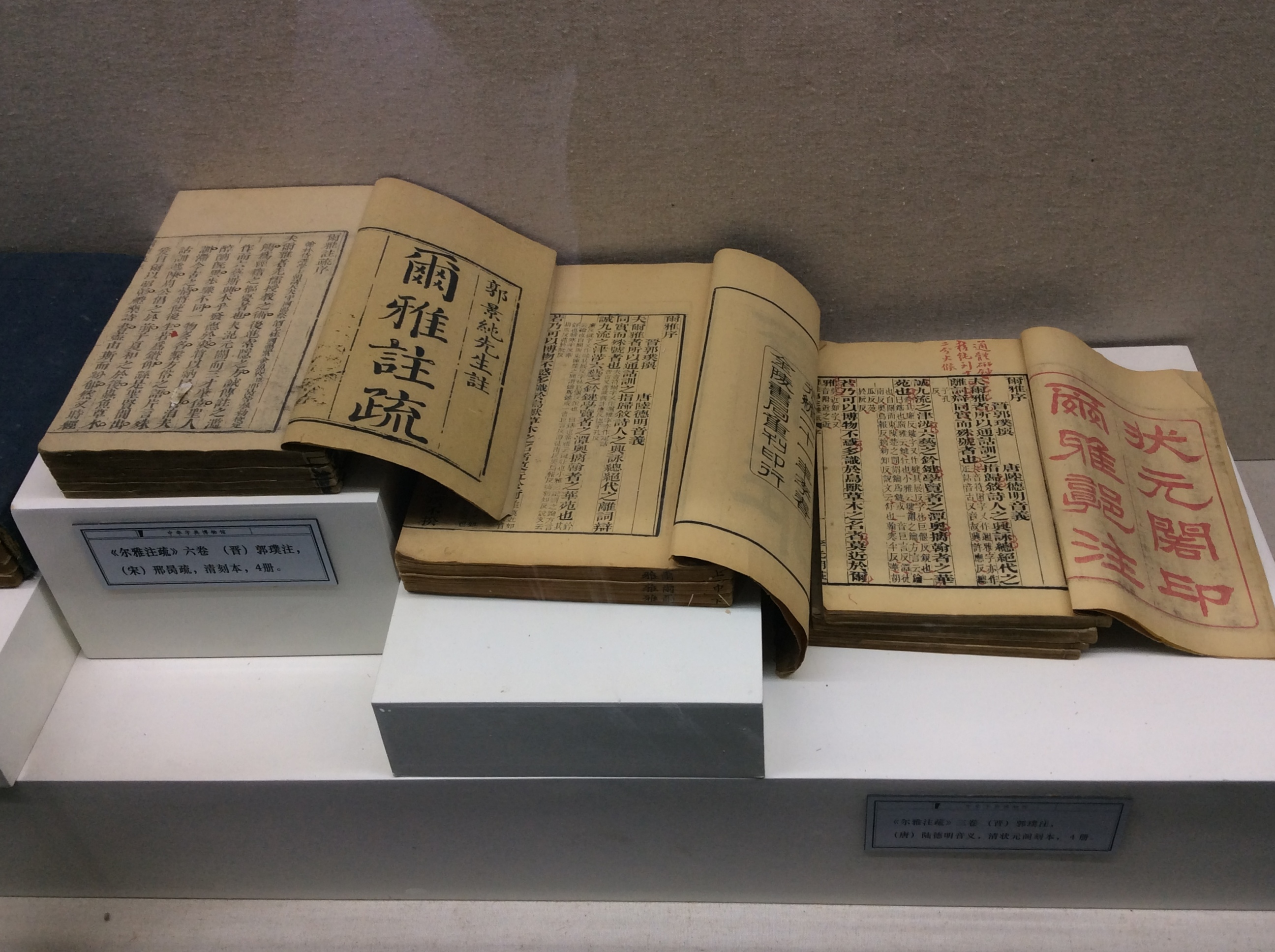 Erya Zhushu (爾雅注疏) exhibit in the Chinese Dictionary Museum, on the grounds of Huangcheng Xiangfu